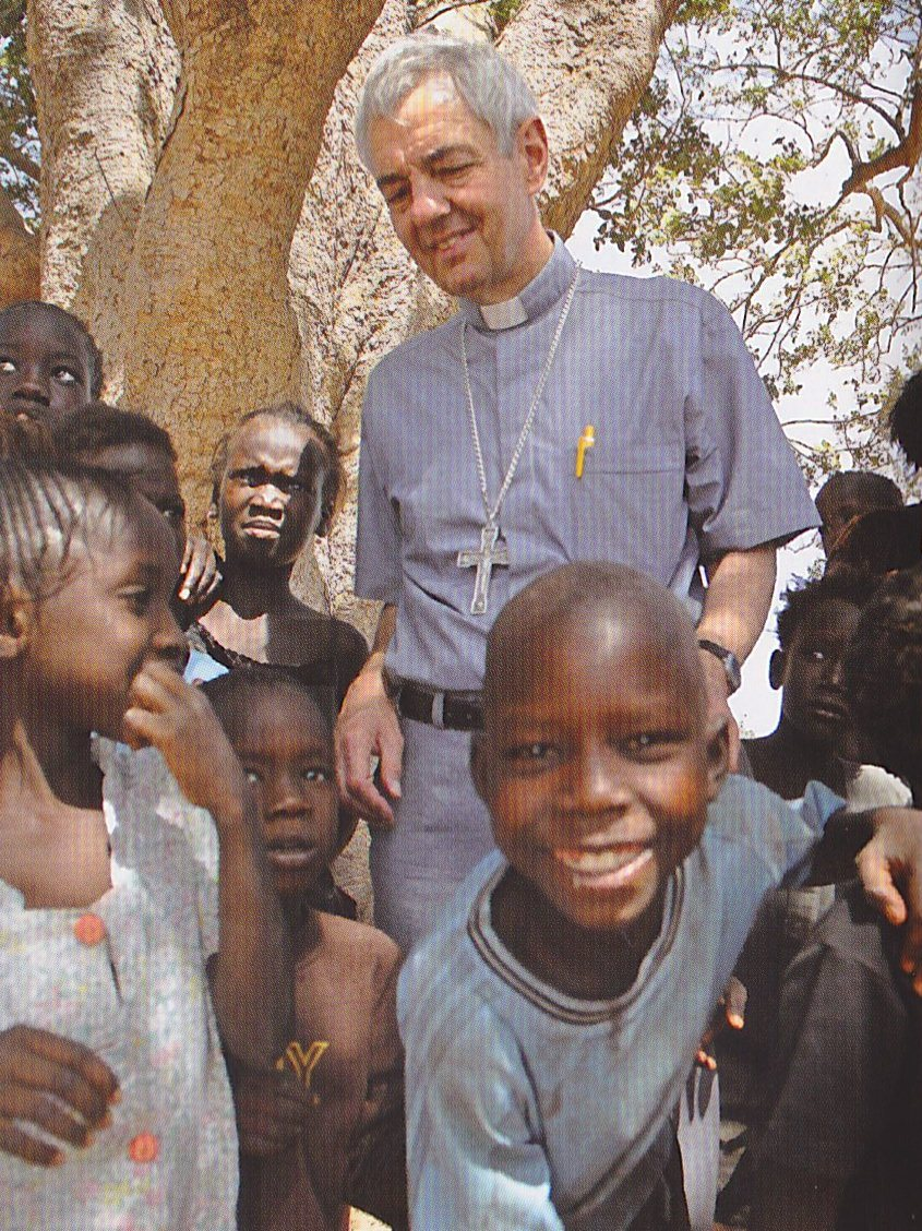 own file